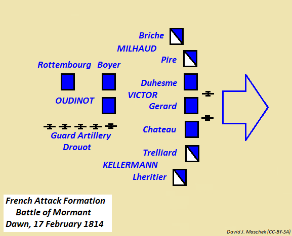 French Attack Formation, Battle of Mormant, Dawn, 17 February 1814. Drawn from information in The End of Empire by George Nafziger, p. 201.